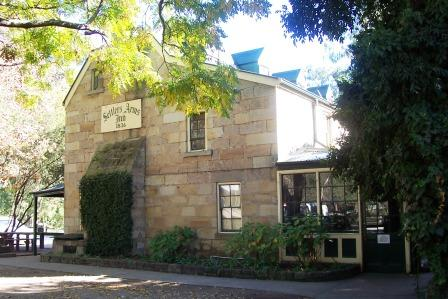 Hotel at St Albans, NSW